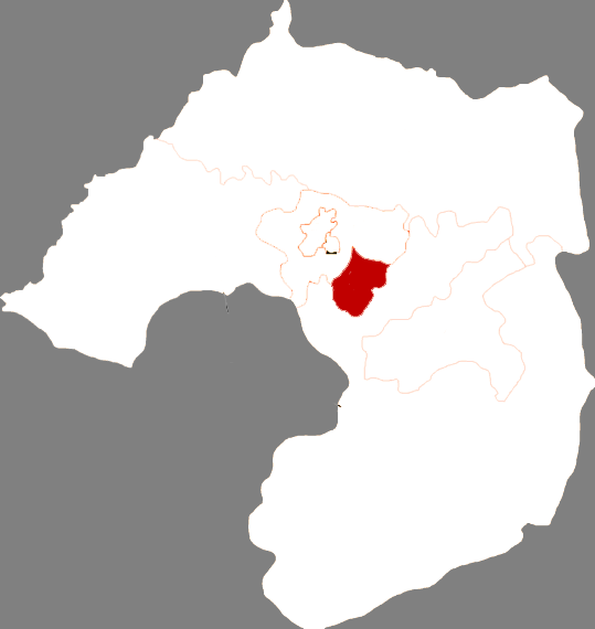 Location of Hongwei district in Liaoyang City, China